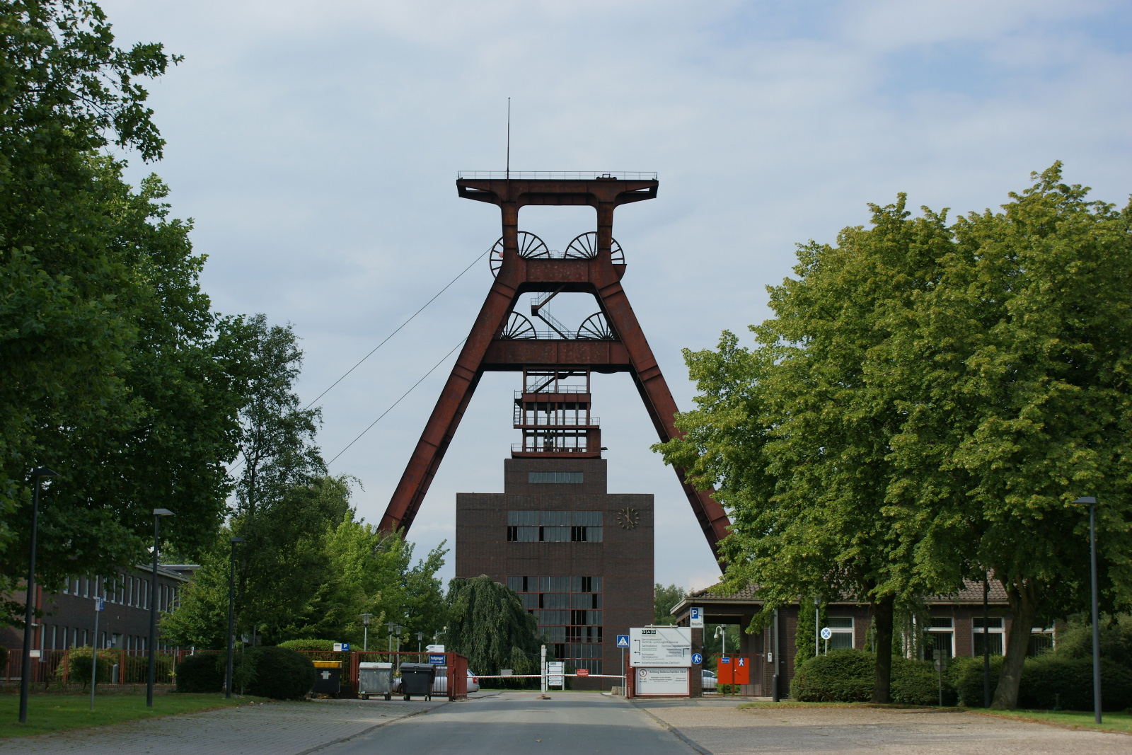 The mining pit "Pluto-Wilhelm" in Herne with its winding tower. The mining pit is out of service. Today there are some labs and the mine rescue brigade at the side.